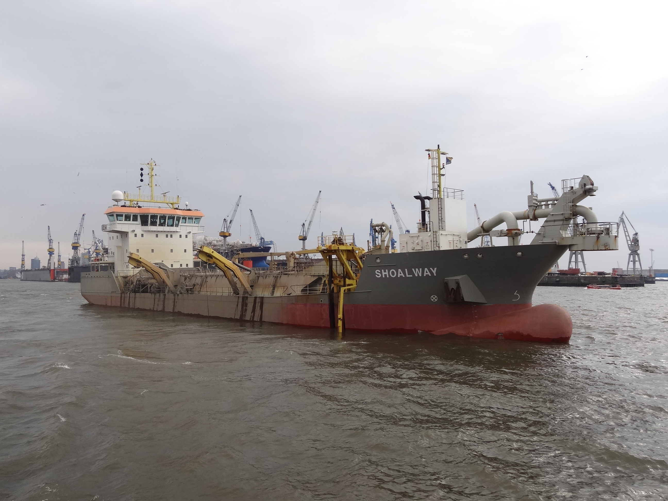 Shoalway, trailing suction hopper dredge, built 2010, Hamburg 2013